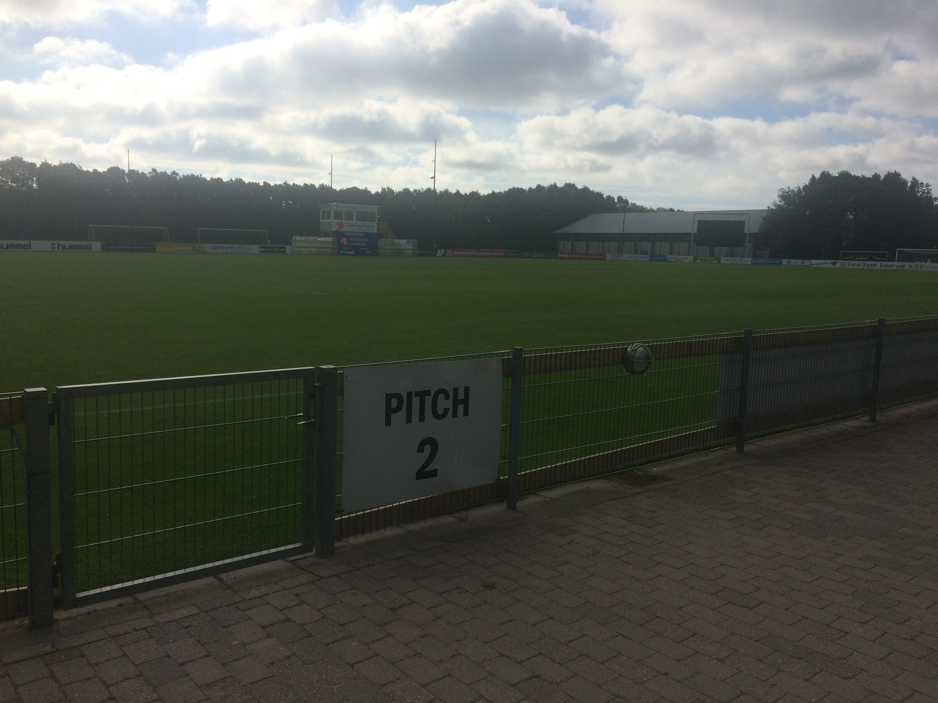 View of Brøndby Stadion - Bane 2